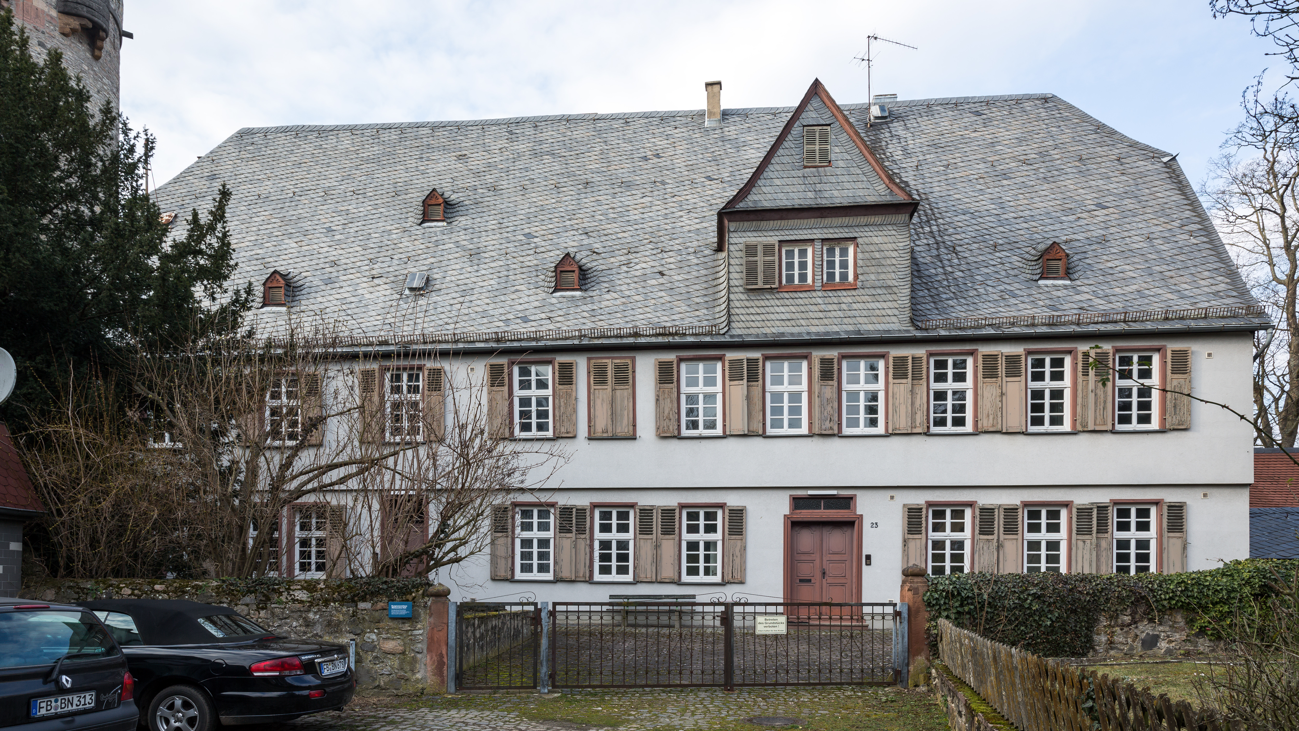 Friedberg (Hesse): In der Burg (In the Castle) 23 as seen from the southeast